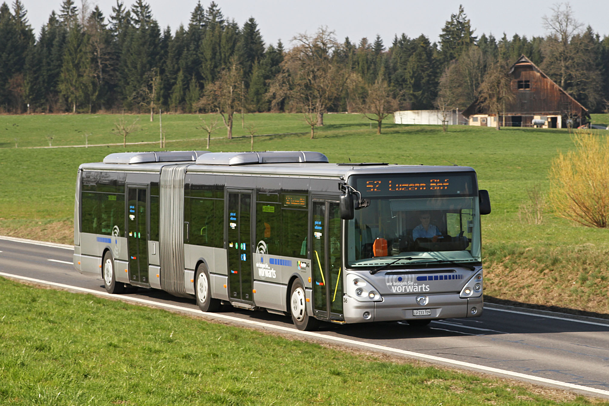 Auto AG Rothenburg's Irisbus Citelis 18 N° 36 on the Line 52 from Rickenbach LU to Lucerne in Rothenburg, Süesstannen.